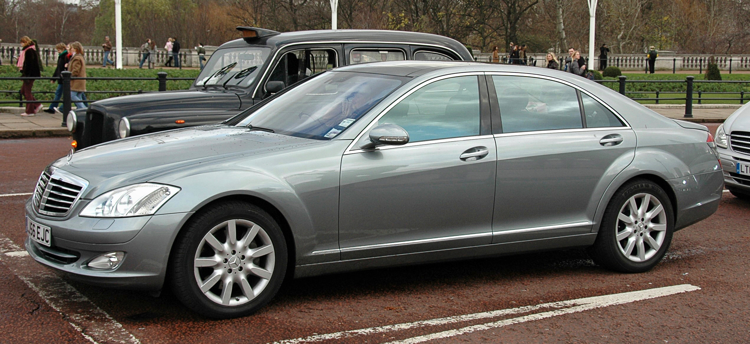 Limousine shot from Buckingham Palace Fountain, London